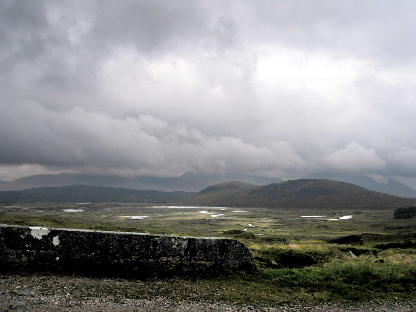 View over Rannoch Moor, Achallader, Scotland